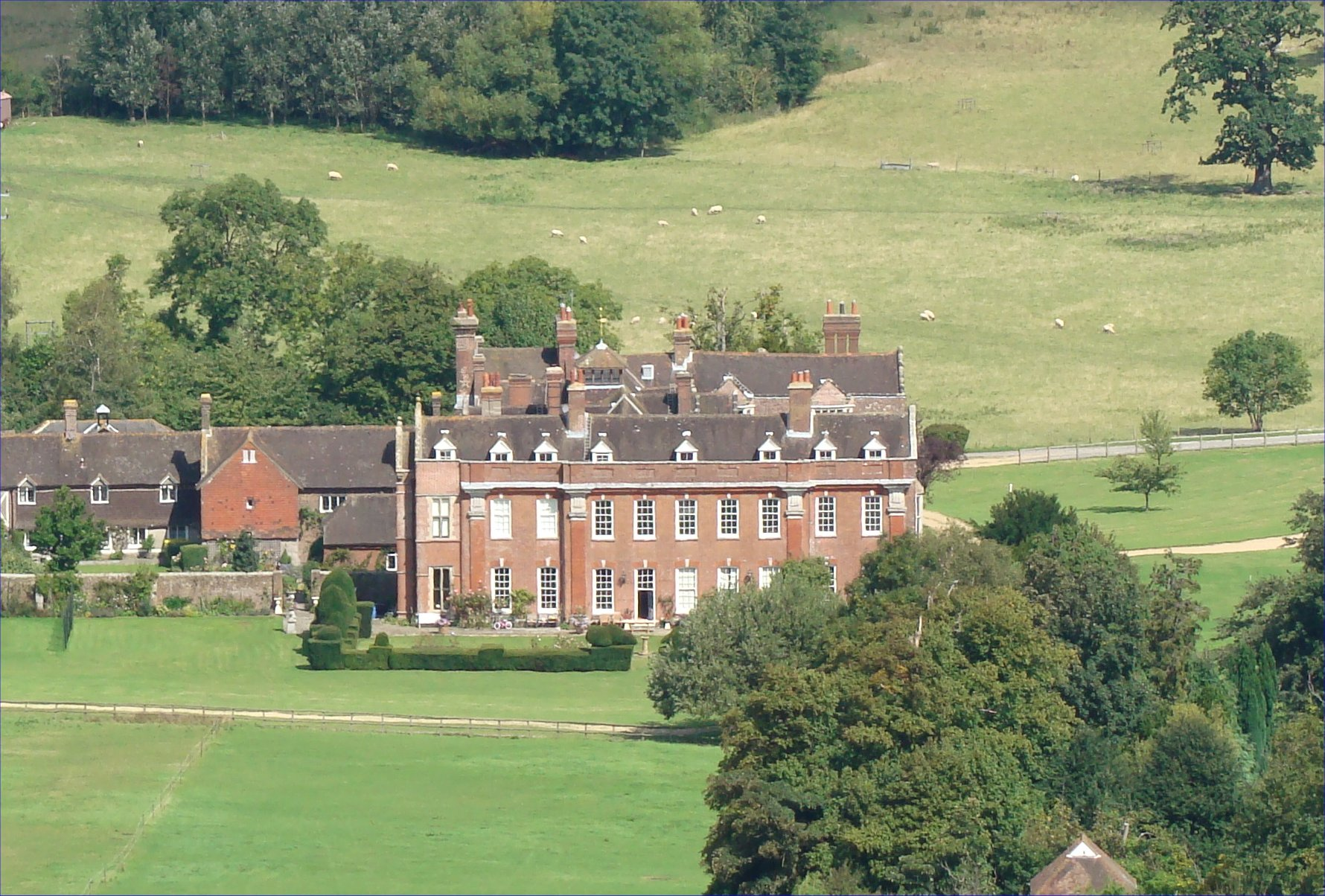 Danny House Southern elevation fron the Downs